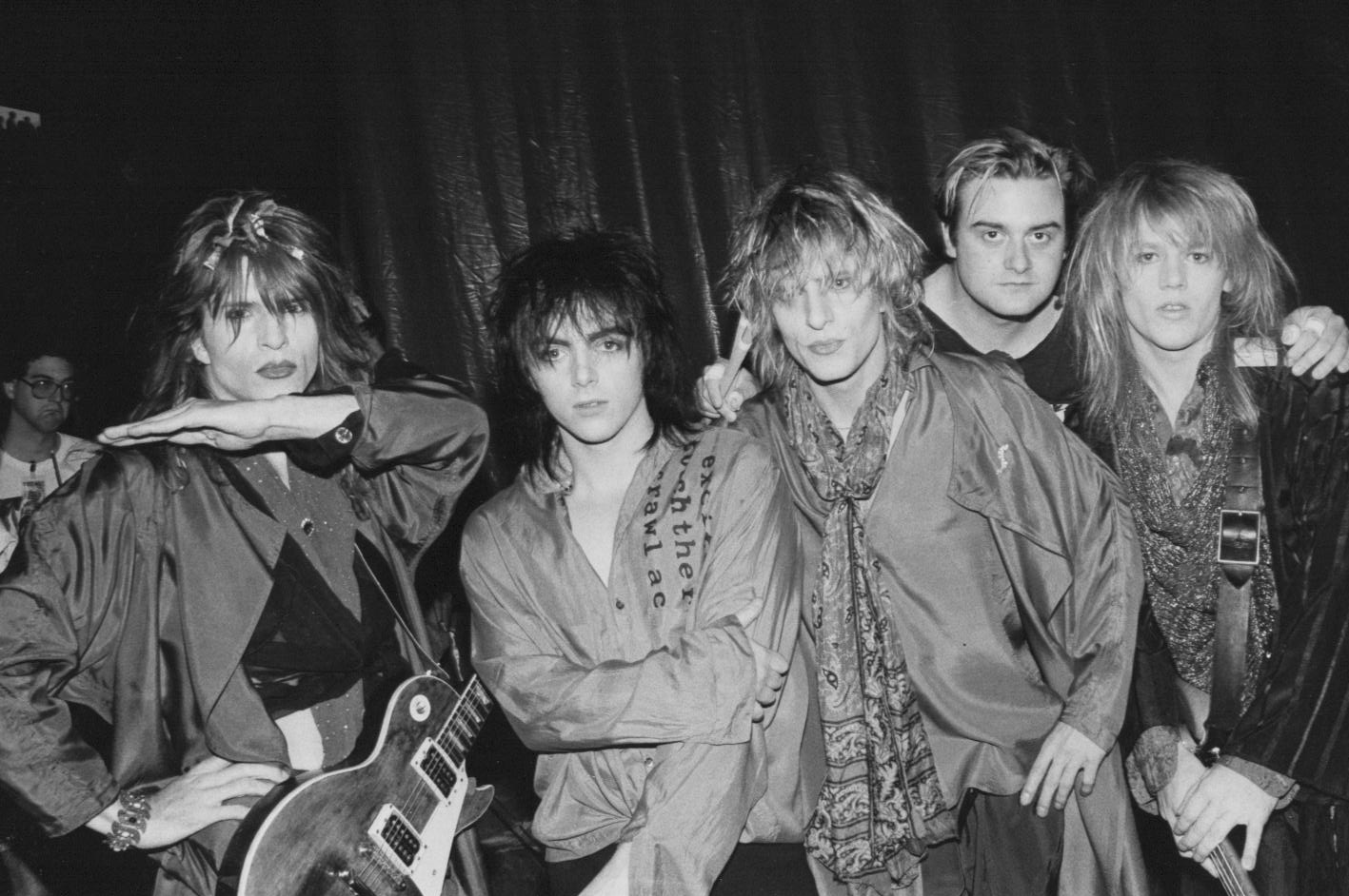 Photo of the members of the band Gene Loves Jezebel.